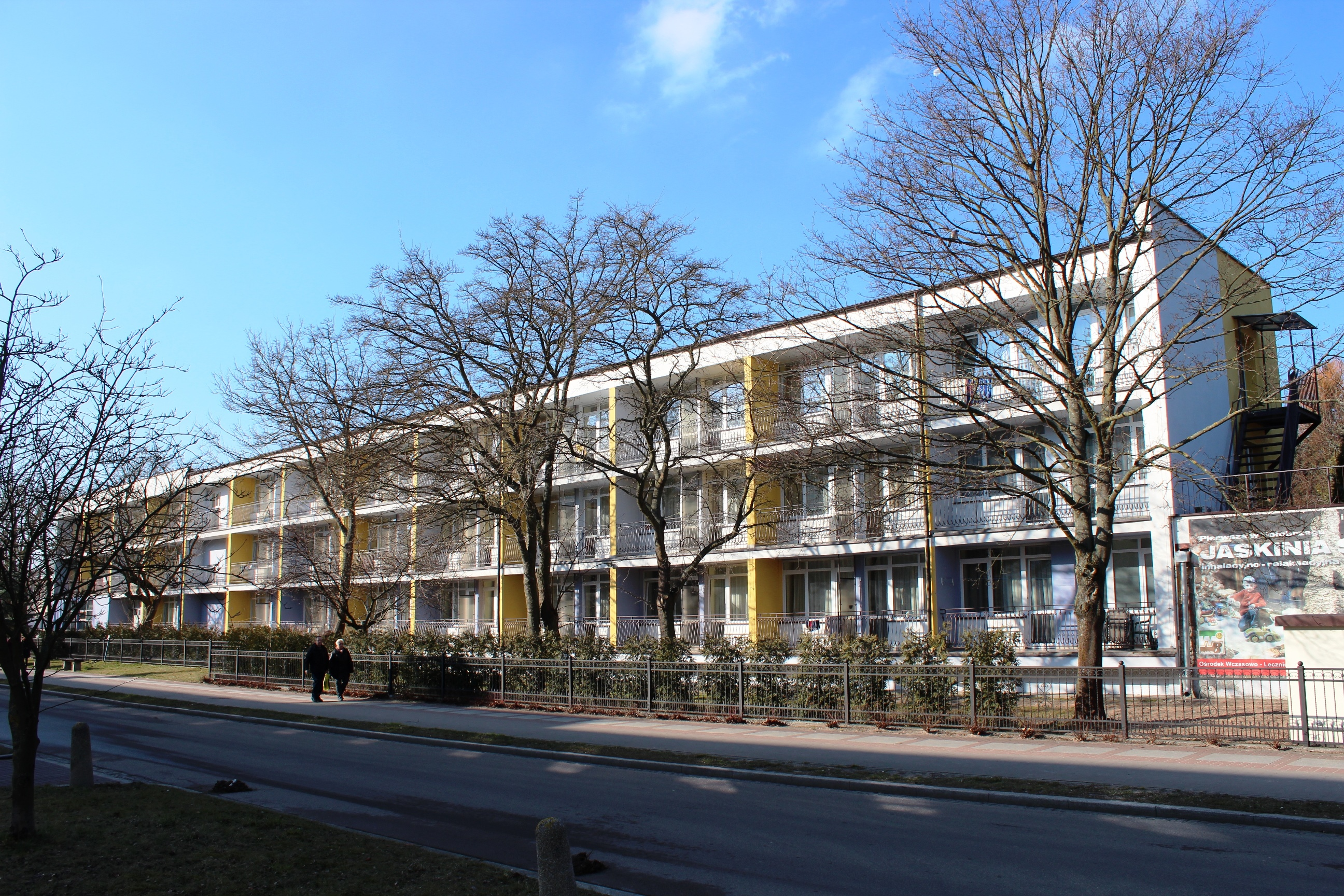 Verano Sanatorium in Kołobrzeg